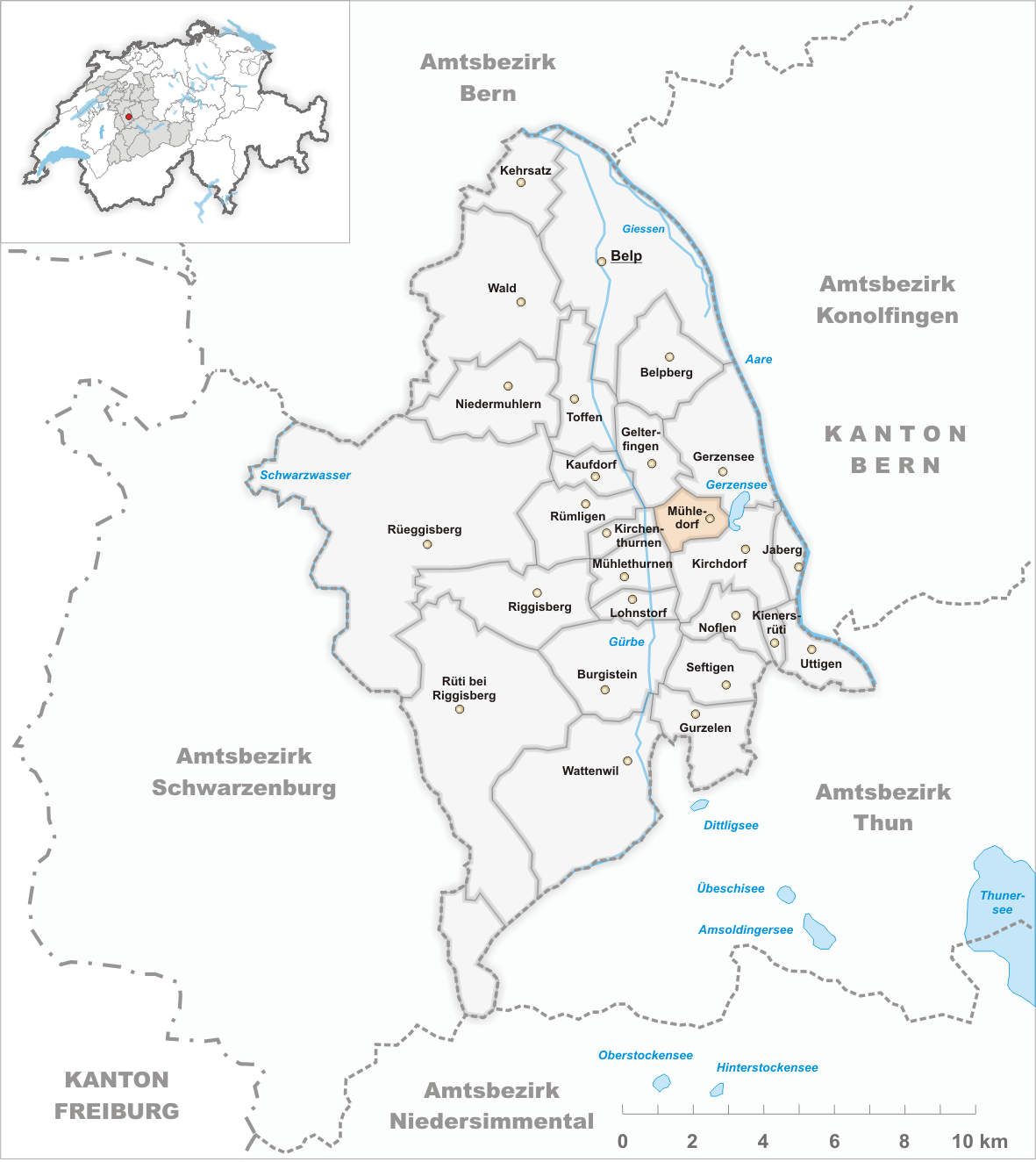 Municipality Mühledorf